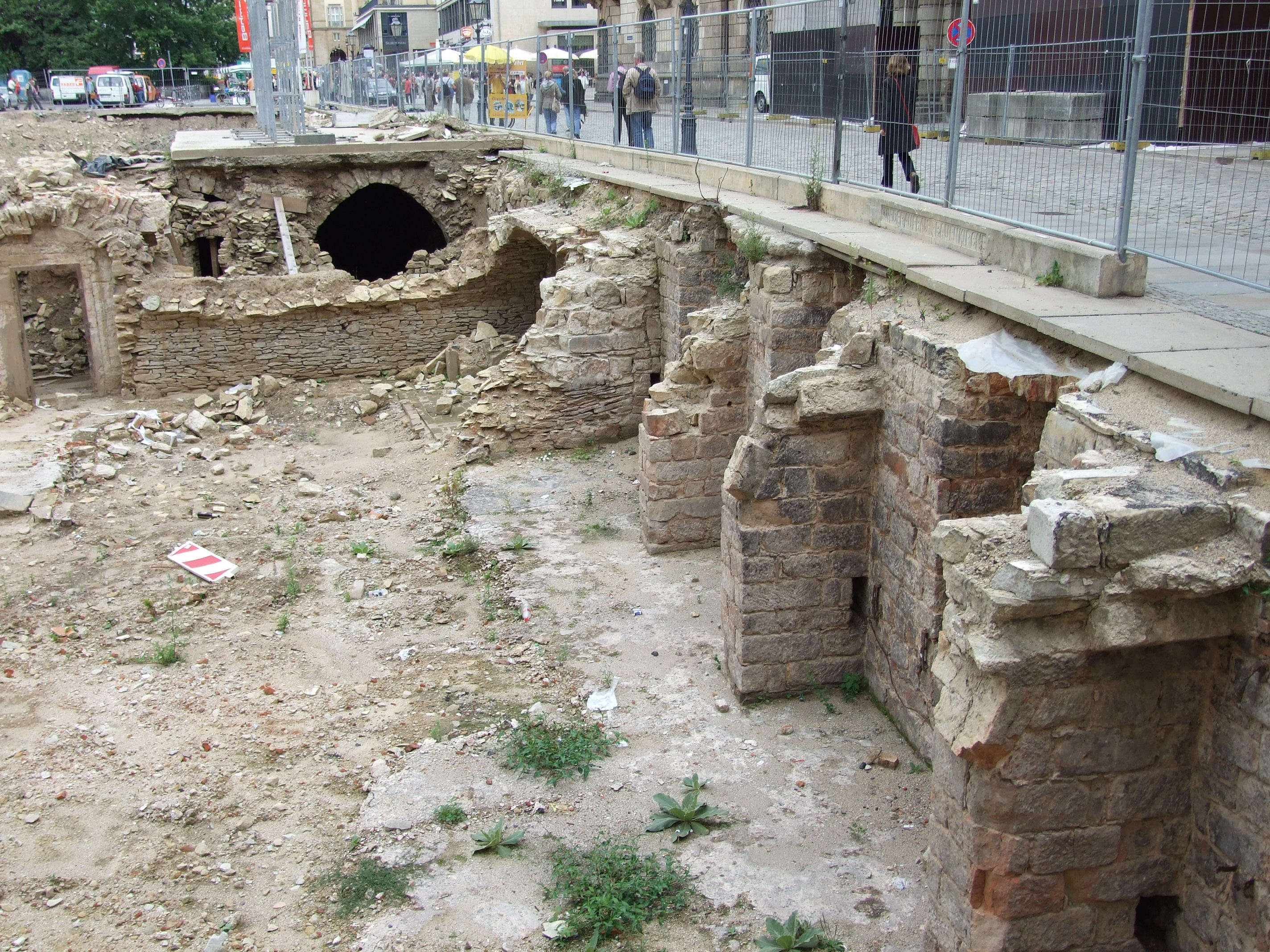 Historic houses foundations in Dresden Altstadt districthelp